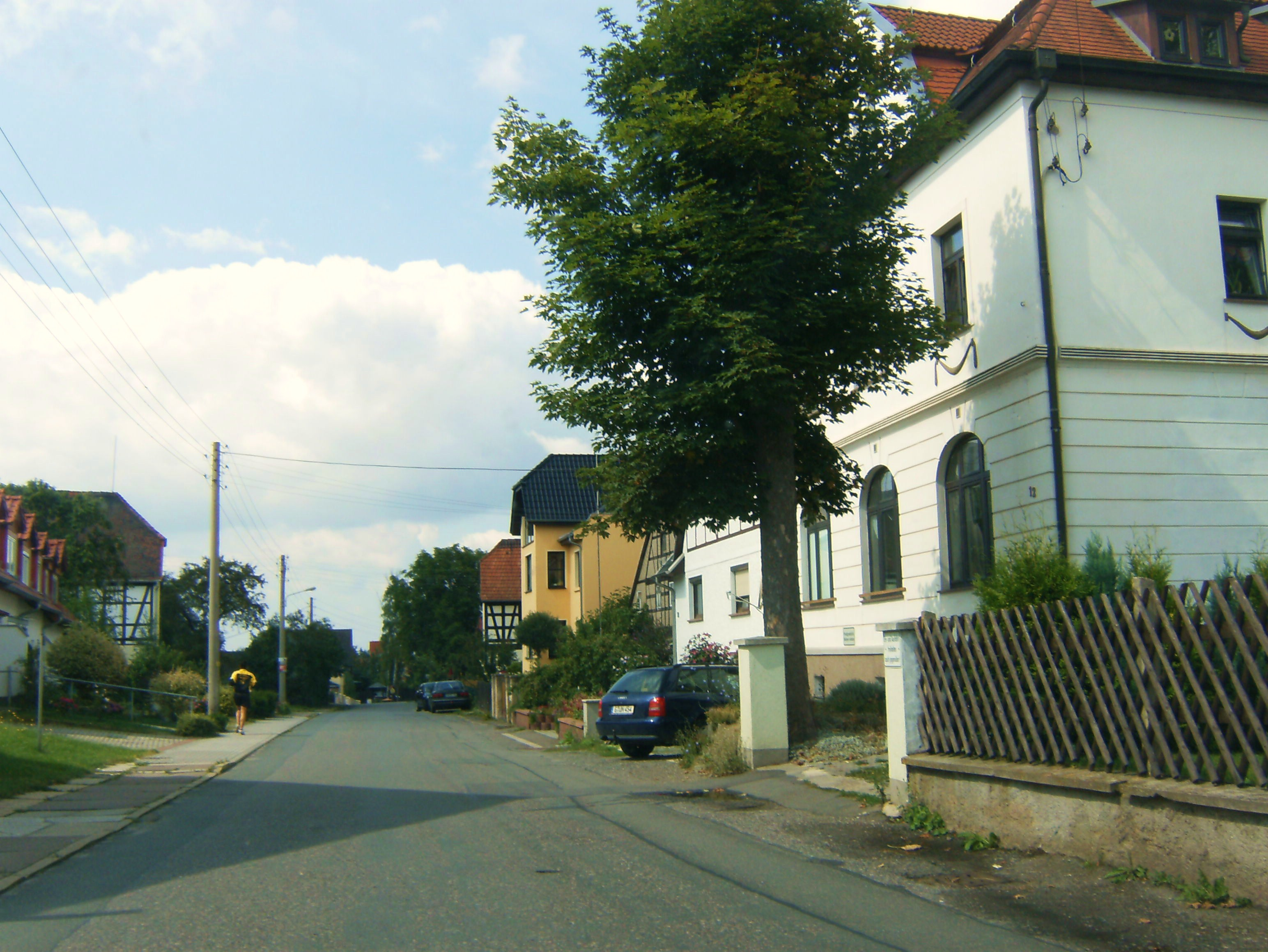 Gera Ernsee, in the village.